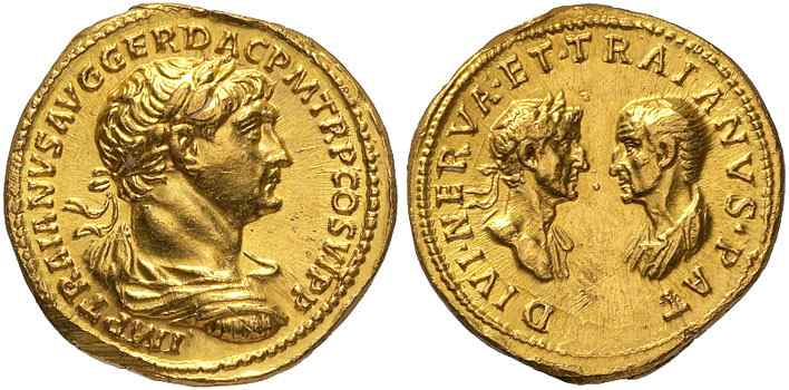 Trajan AV Aureus. 115 AD. IMP TRAIANVS AVG GER DAC P M TR P COS VI P P, laureate, draped & cuirassed bust / DIVI.NERVA.ET.TRAIANVS.PAT, confronted busts of Divus Nerva, laureate & draped, on left, & Divus Trajan Pater, draped, on right. Cohen 1